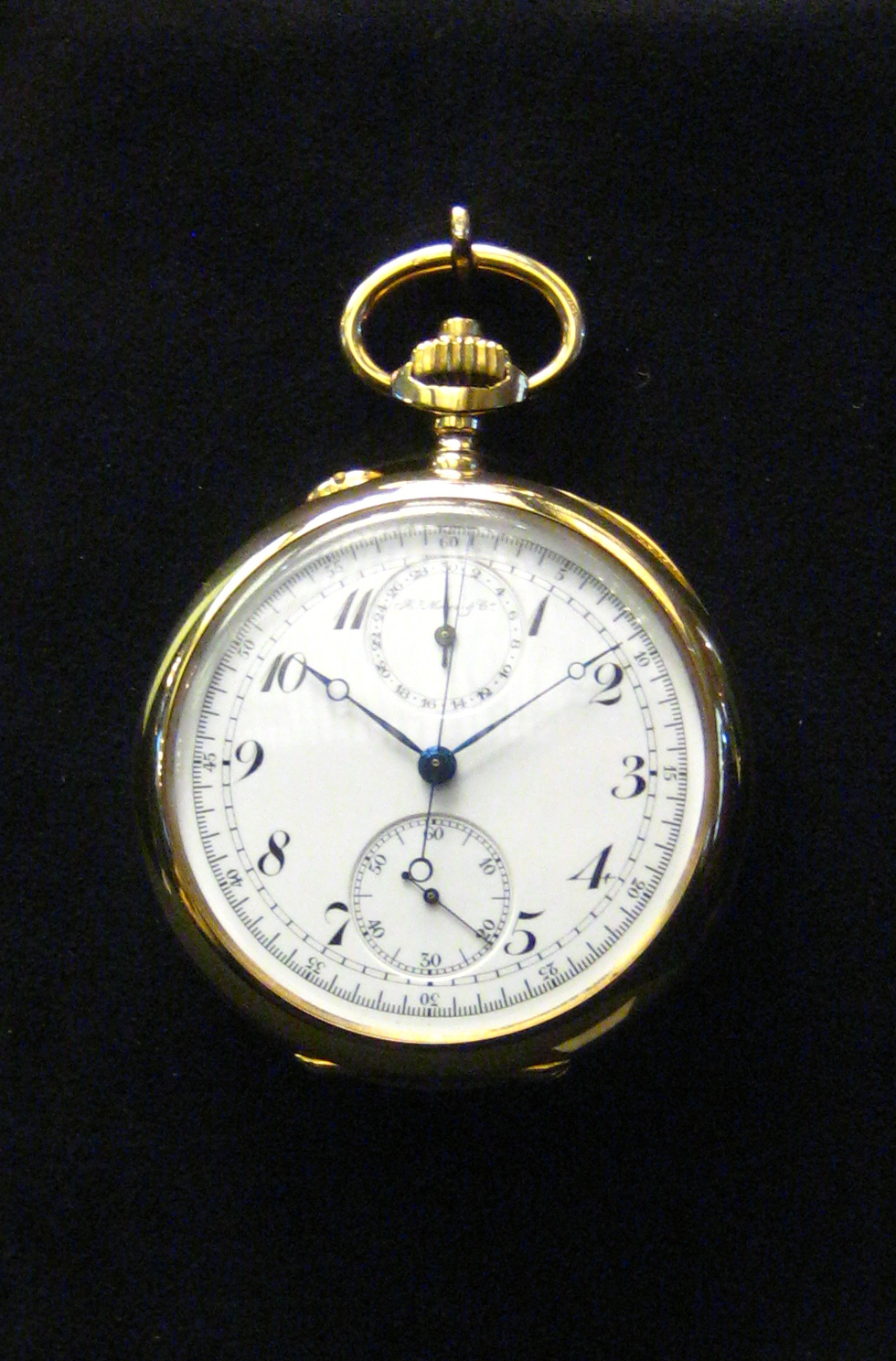 Pocket chronograph, Henry Moser & Cle. Switzerland. 1917. Gold, glass. Musee d'Horlogerie du Locle - chateau des Monts, Le Locle